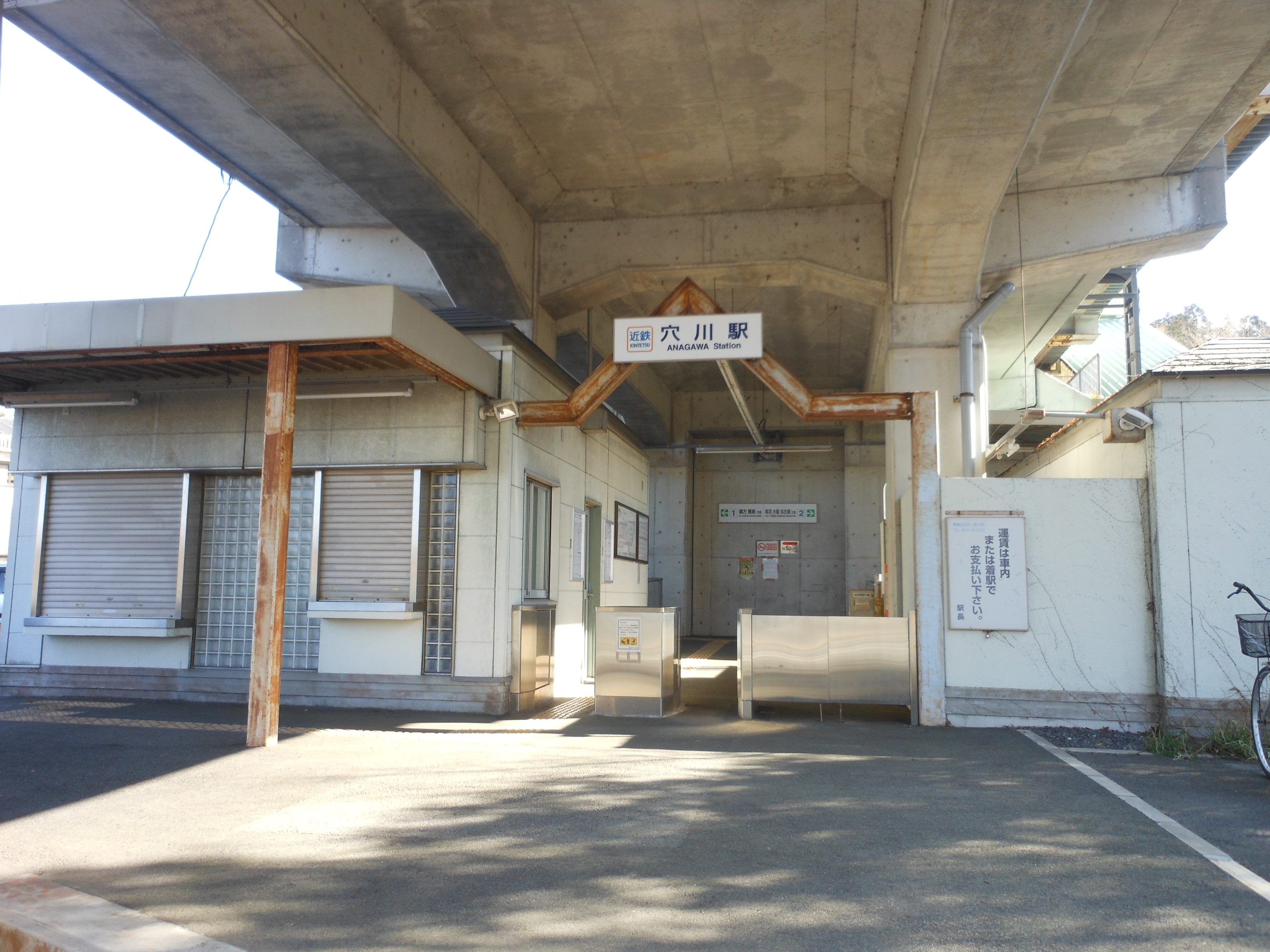 This is the Kintetsu Anagawa station in Isobecho-Anagawa, Shima, Mie, Japan.